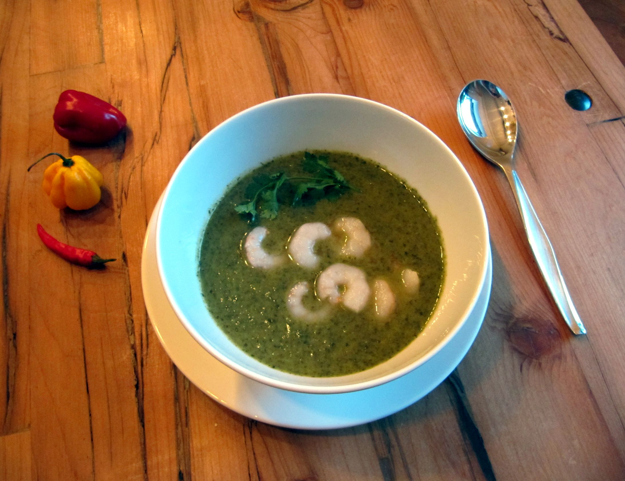 Callaloo: A Trinidadian soup or stew based on leafy vegetables. This version contains some added shrimps.